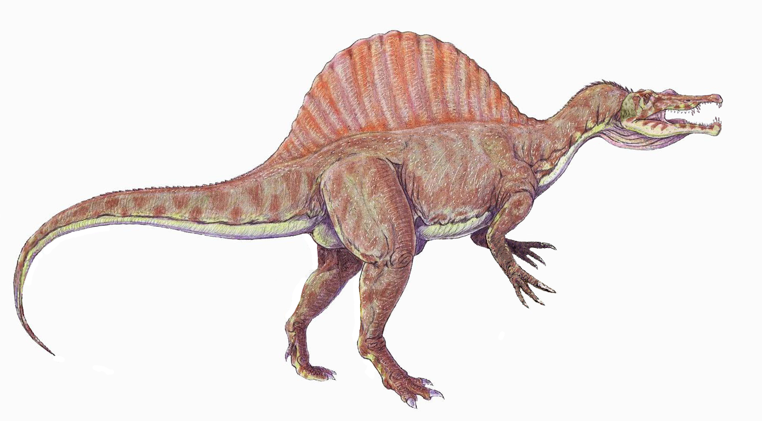 Spinosaurus aegipticus with hands, tail and skull fixed.